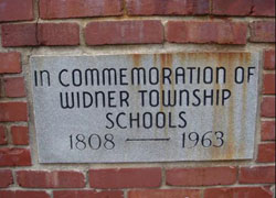 Marker at the site of the Freelandville School